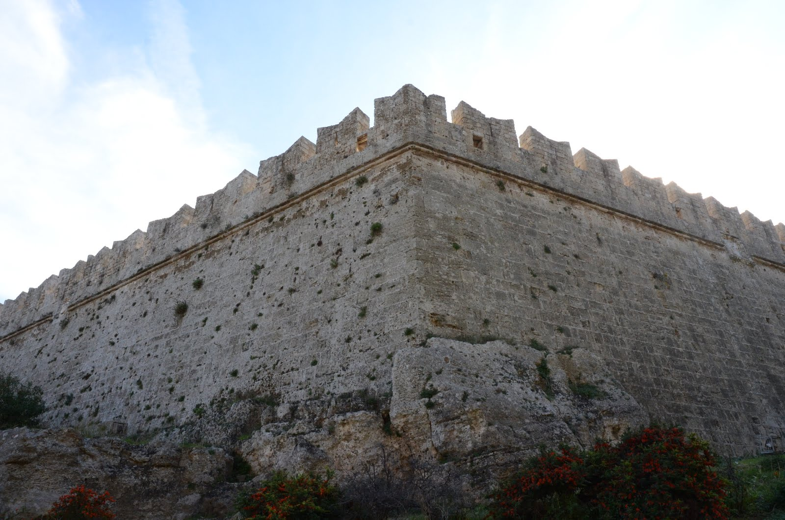 Rhodes-St Georges Bastion